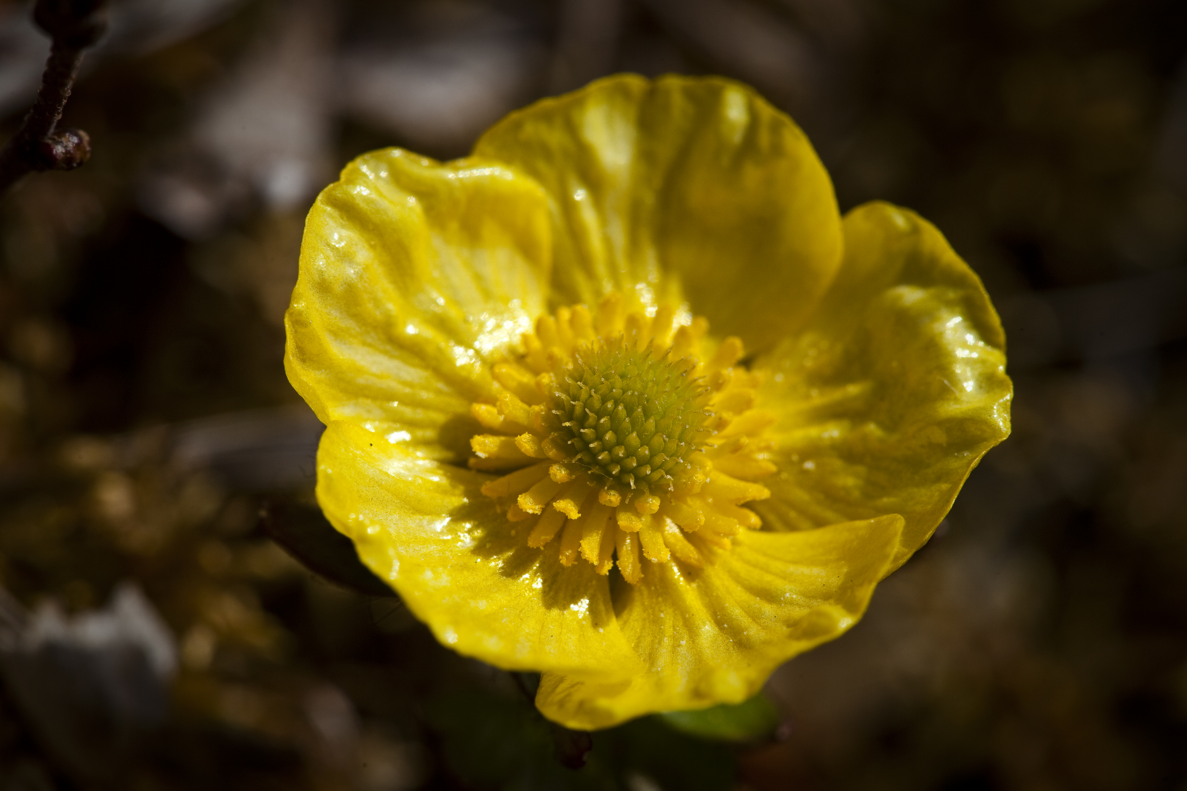 Ranunculus nivalis, Denali National Park and Preserve, AK, USA